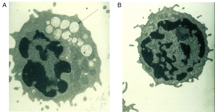 Electron micrograph of a vacuolated lymphocyte. Electron micrograph of a vacuolated lymphocyte from a mannosidosis patient (A) as compared to a lymphocyte from a normal control (B).